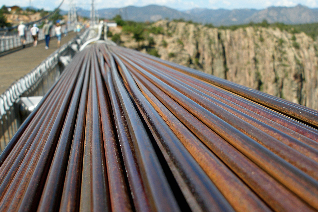 Royal Gorge Bridge, Colorado, USA, view along a cable